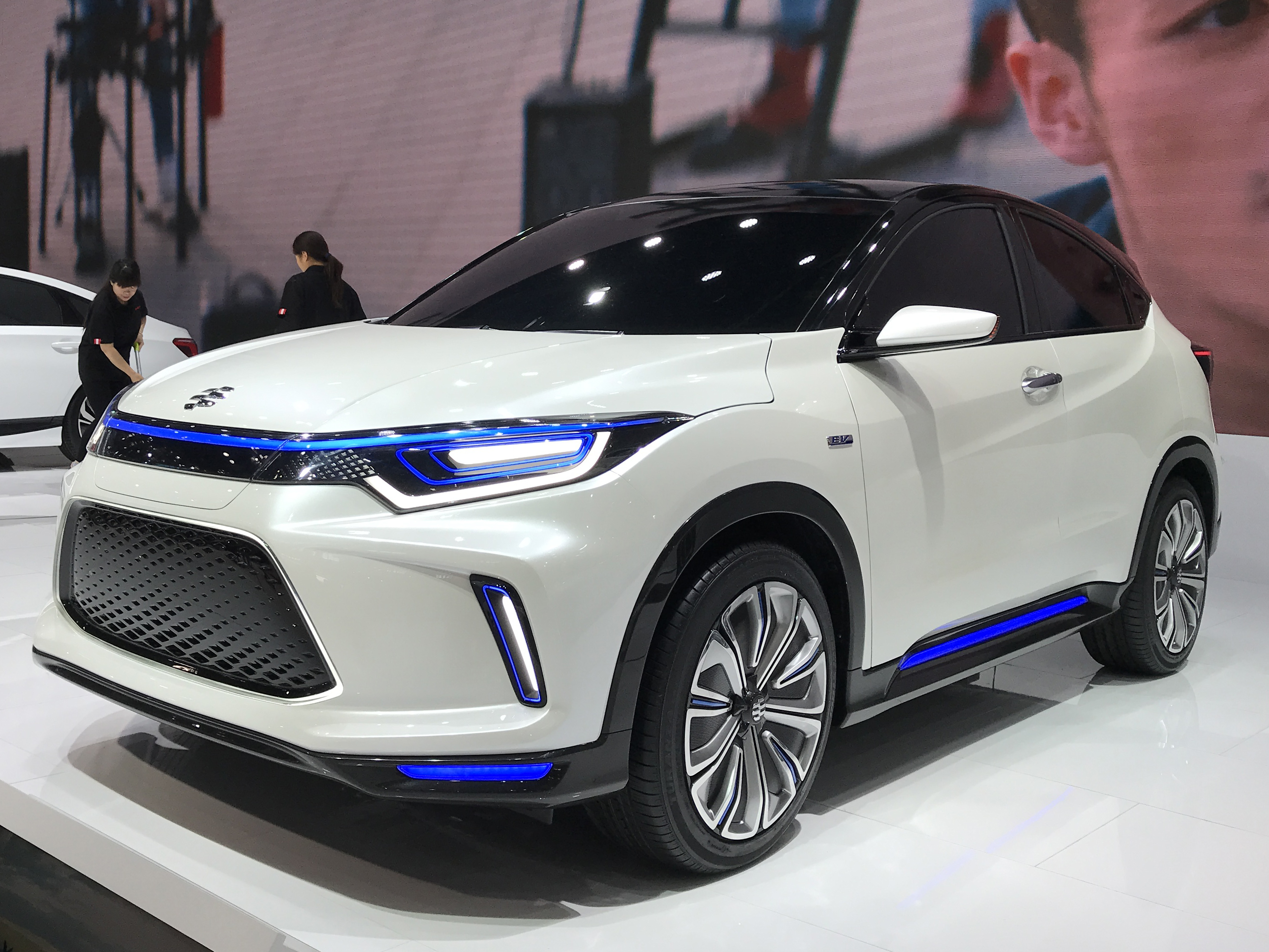 Everus EV front